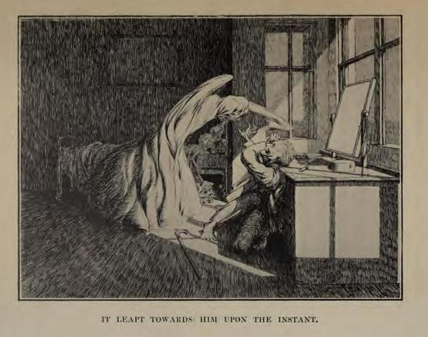 Illustration by James McBryde for M. R. James's story "Oh, Whistle, And I'll Come To You, My Lad", first published "All Hallows Eve 1904". As recounted in the book's preface, M. R. James was close friends with the illustrator and its publication was intended as a showcase for the illustrator's artwork. McBryde died having only completed four plates.